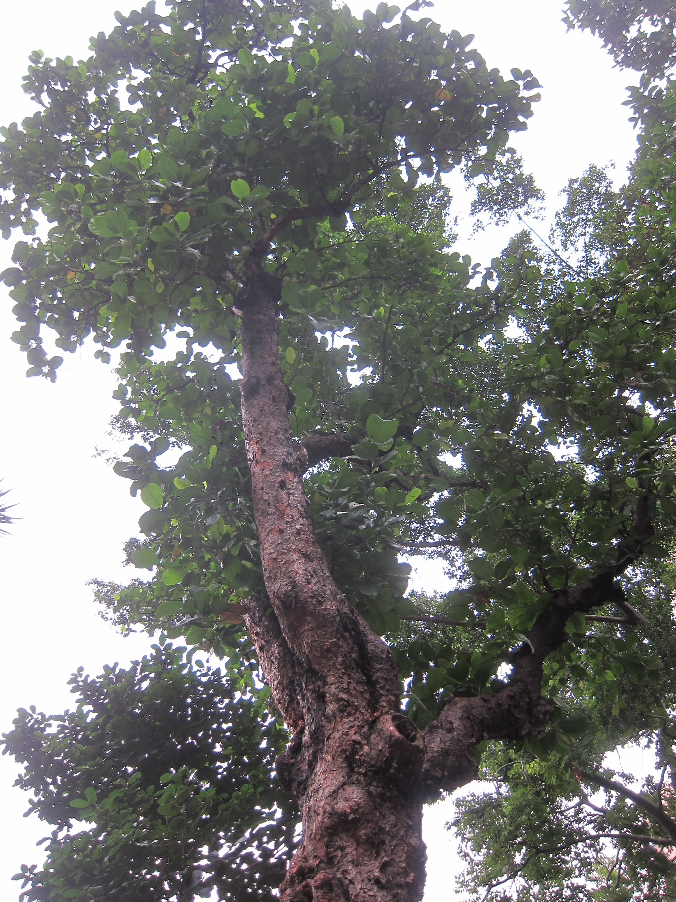 Dillenia alata in Hong Kong Zoological and Botanical Gardens.